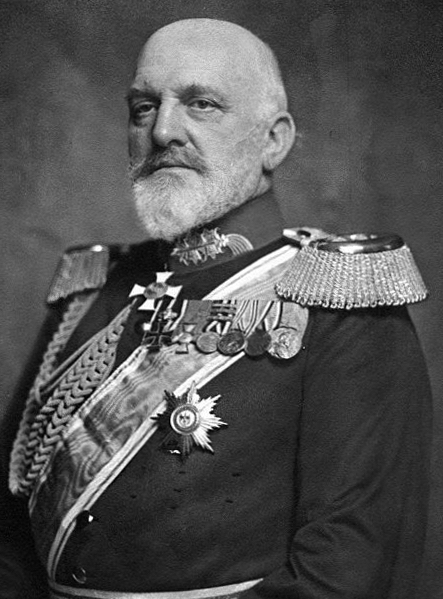 Cropped photograph of Prussian Minister of War, Gen. Josias von Heeringen